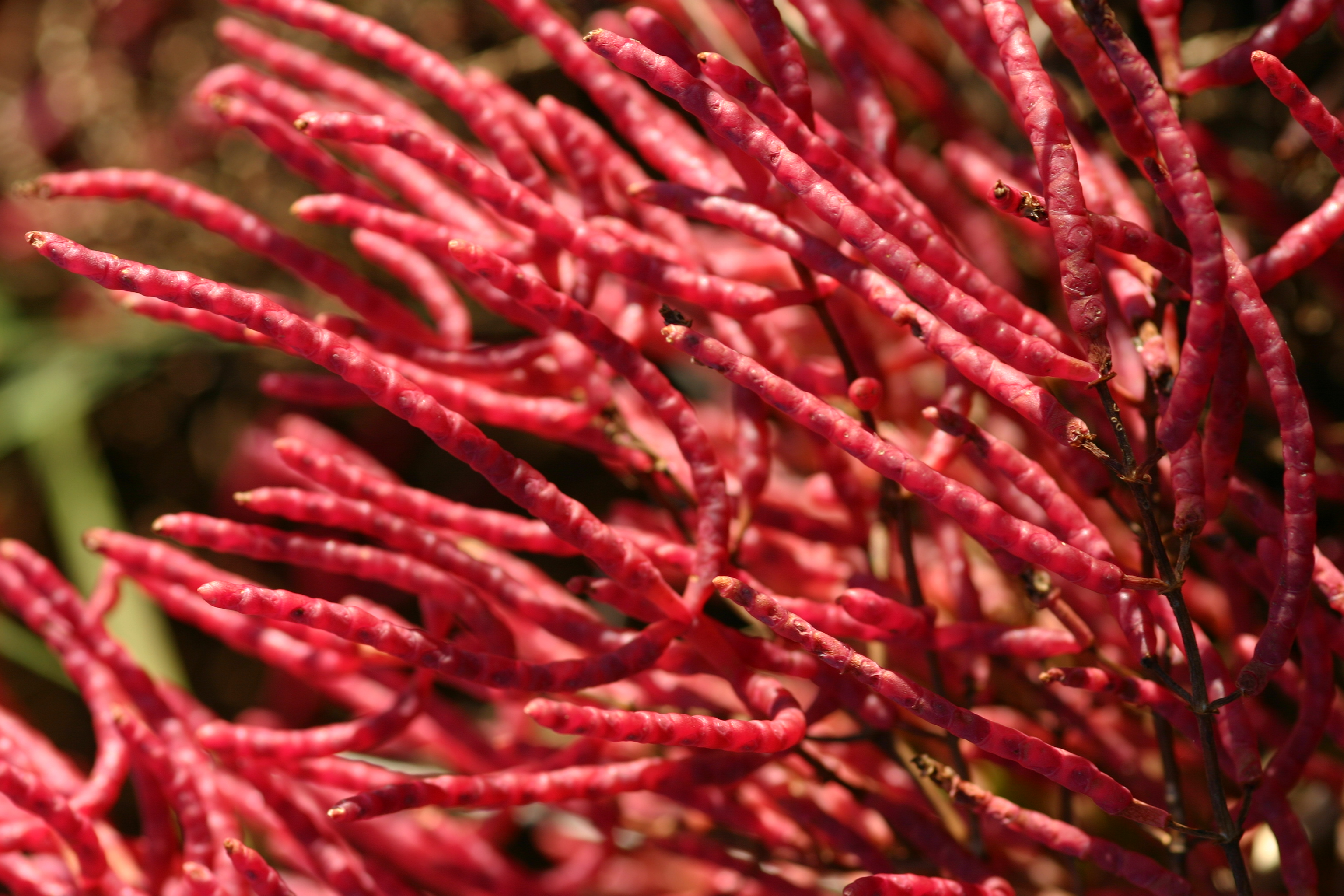 Salicornia virginica taken at Marshlands Near Rehoboth, Brian Gratwicke 2006